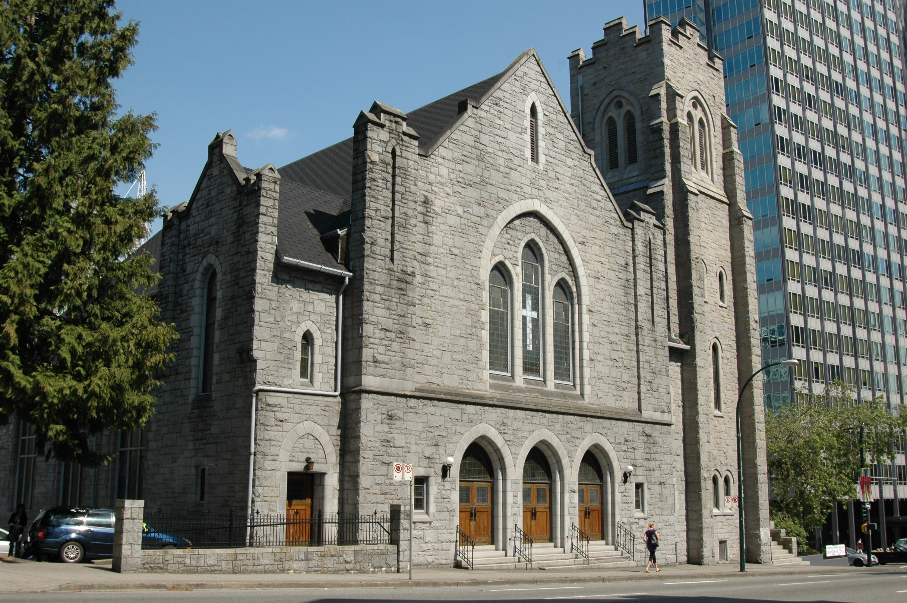 First Baptist Church (1911), 969 Burrard Street, Vancouver BC